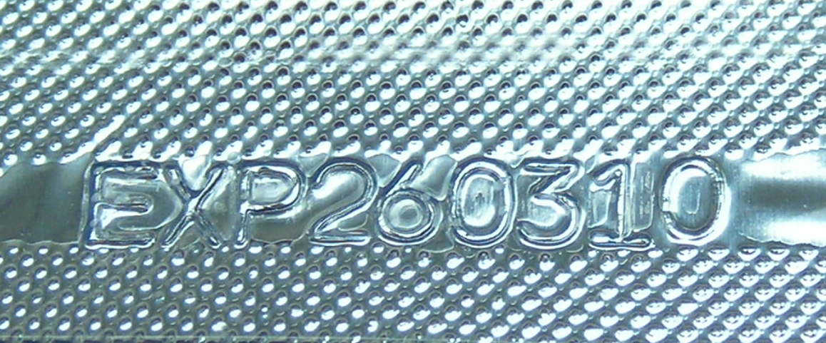 expiration date "EXP 260310" (that is year: 2603, month: 10 - Thai calendar) on a medicine tray.